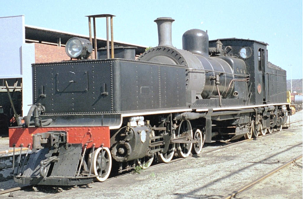 GB 2-6-2+2-6-2 no 2166 at Voorbaai 1997-SEP-04